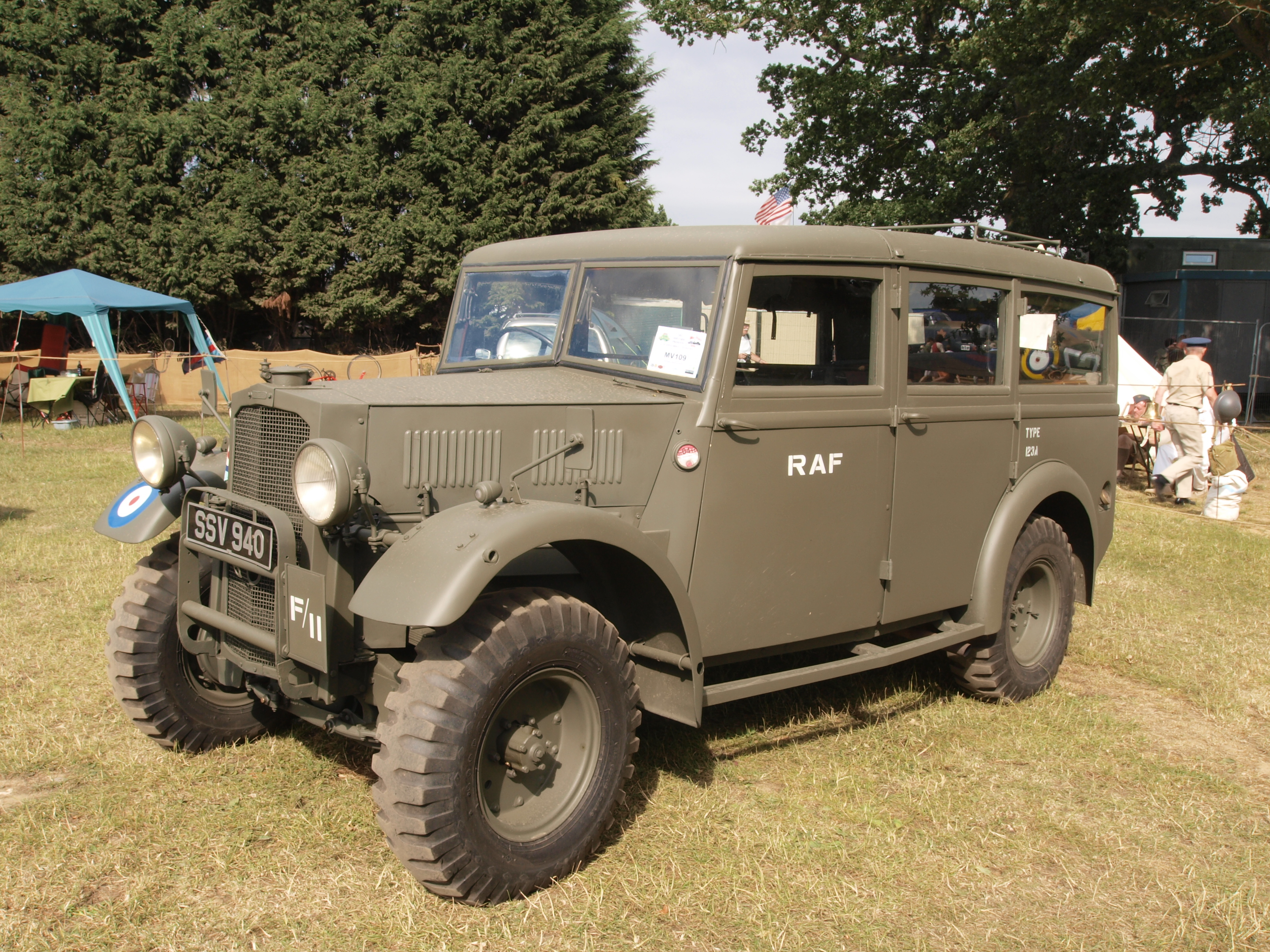 Humber Heavy Utility (1942) (owner Andrew Partridge)